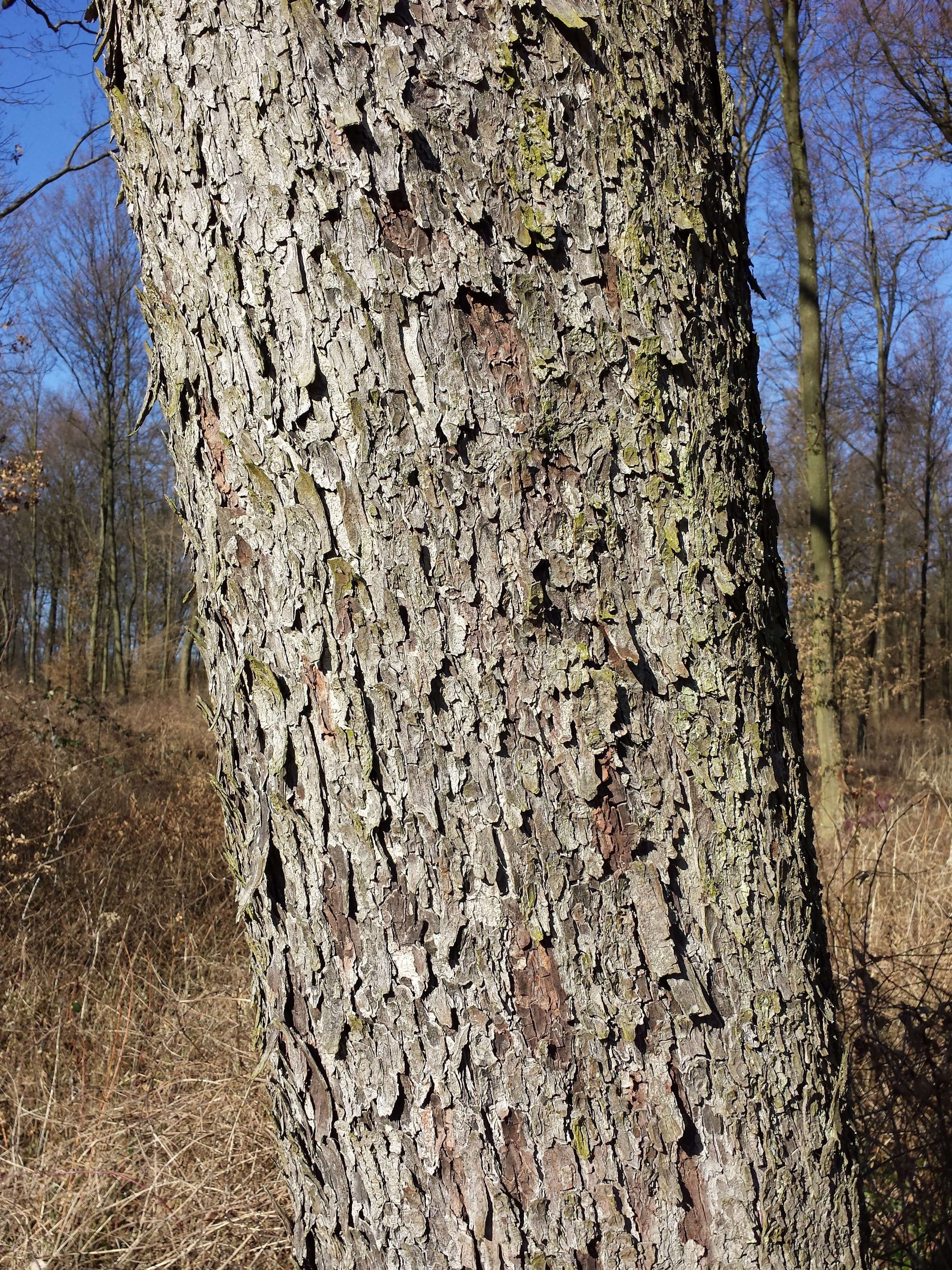 Bark Taxonym: Sorbus torminalis ss Fischer et al. EfÖLS 2008 ISBN 978-3-85474-187-9 Location: Rohrwald, district Korneuburg, Lower Austria - ca. 300 m a.s.l. Habitat: deciduous forest